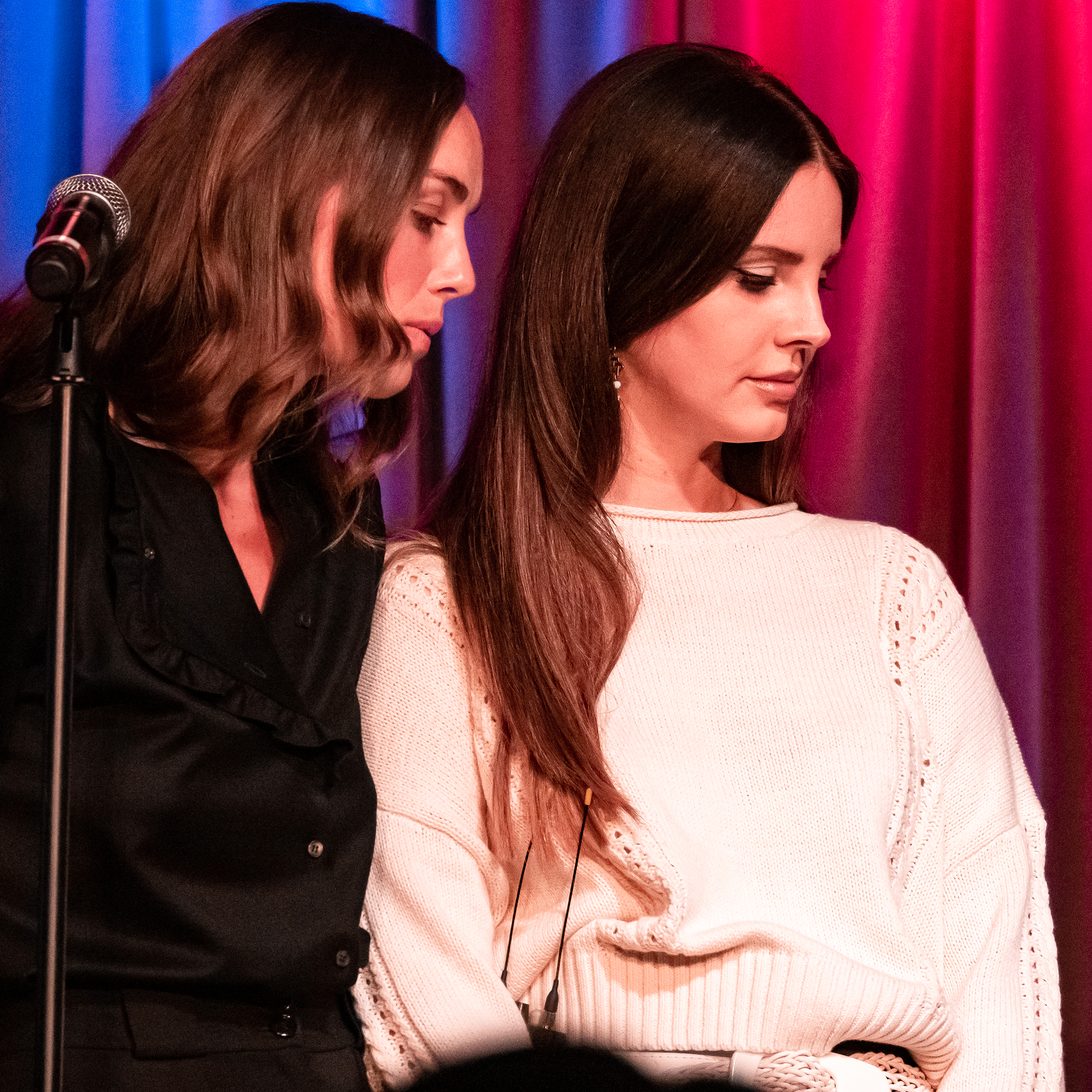 Lana Del Rey performing live at the Grammy Museum in Los Angeles on 10/13/2019.